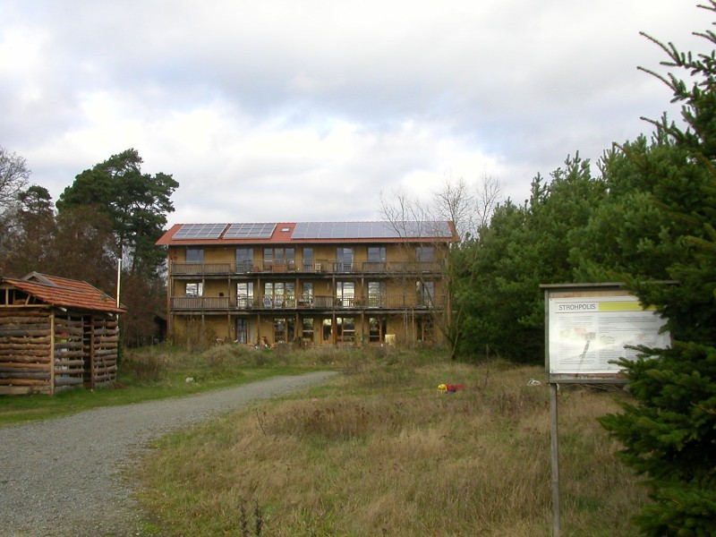 An ecological village, a straw bale house with Solar panels in Beetzendorf, Germany.